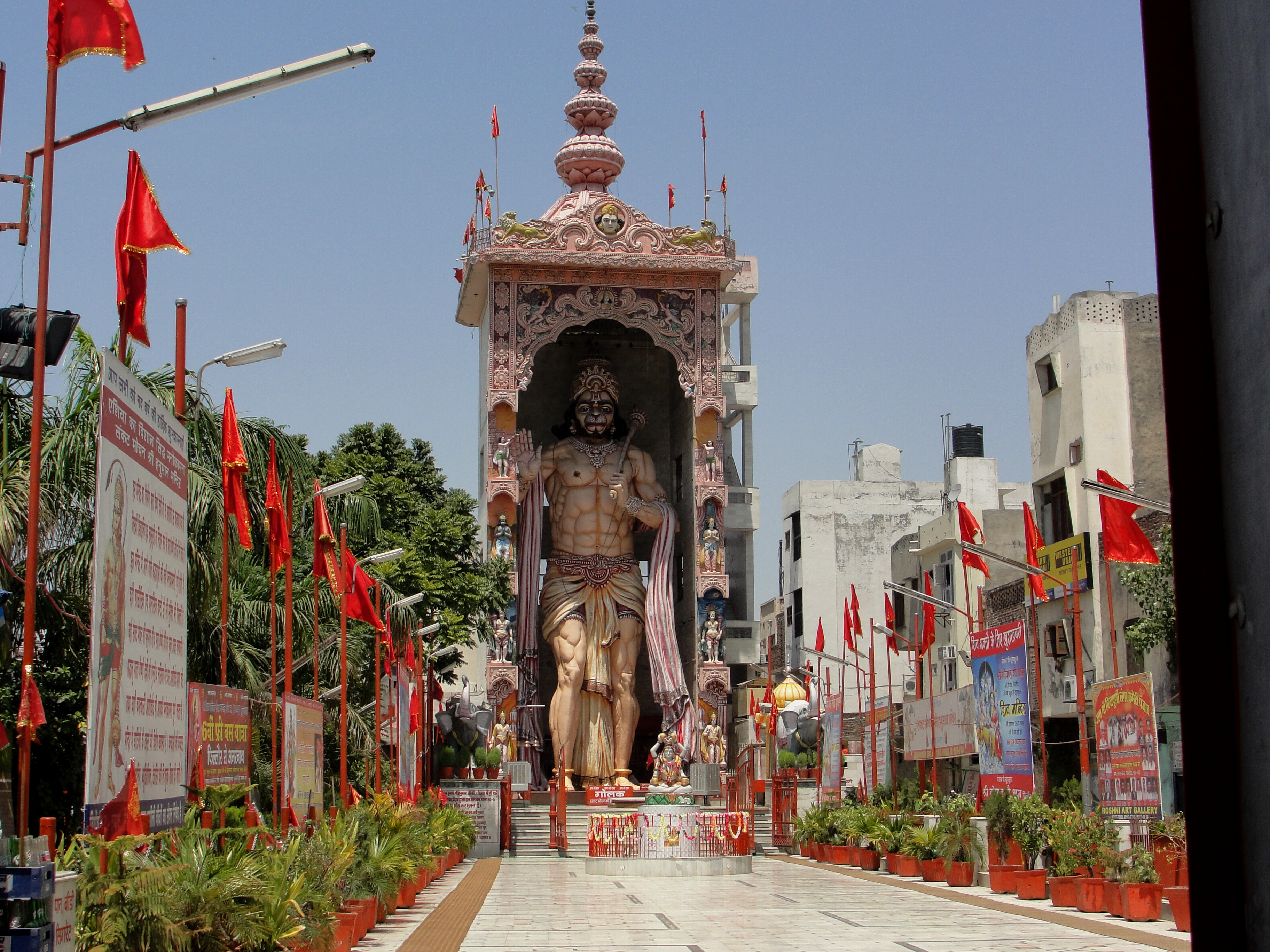 This Hanuman Temple at Phillaur, Ludhiana in Punjab houses the tallest statue of Hanuman i entire Asia (nearly 80ft). The basement of the same temple houses very good quality glass work done on the walls of the meditation room.